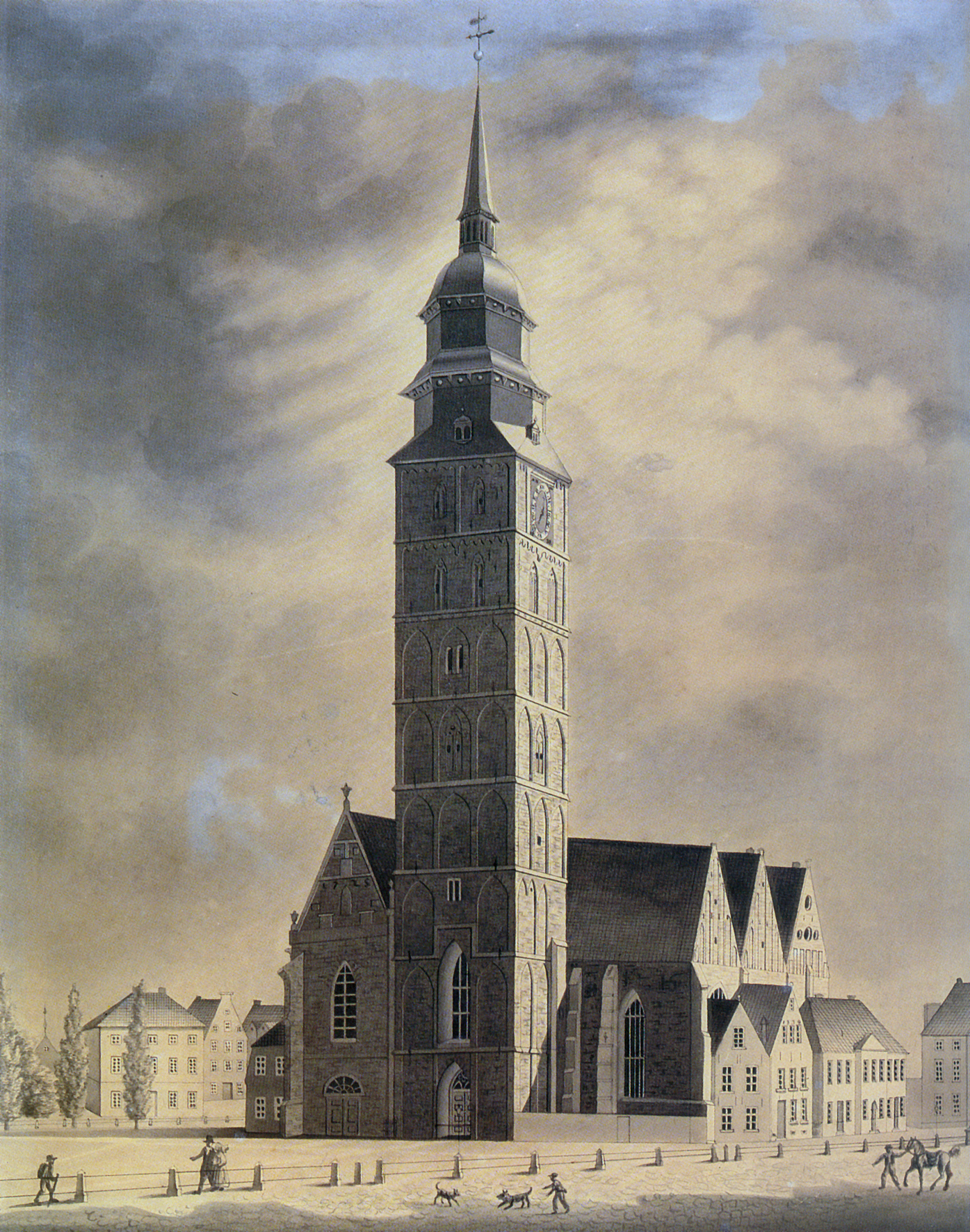 Pen and ink drawing of the St. Ansgarii church in Bremen around the year 1839.